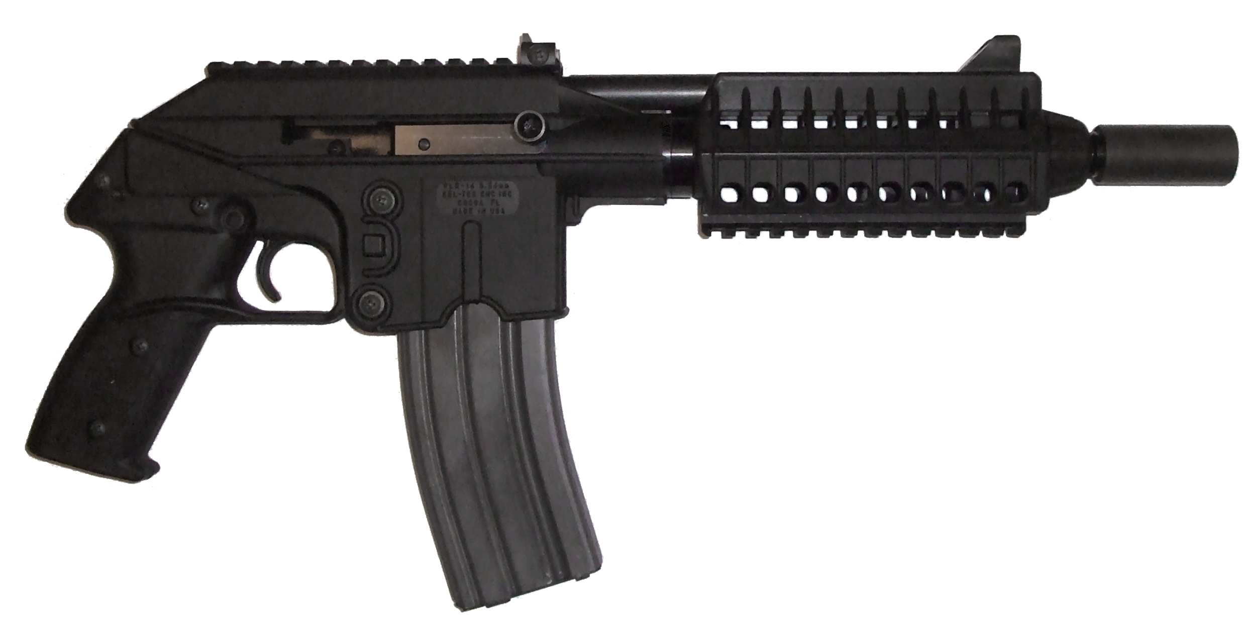 Kel-Tec PLR-16 pistol with tactical forend and Levang linear recoil compensator.